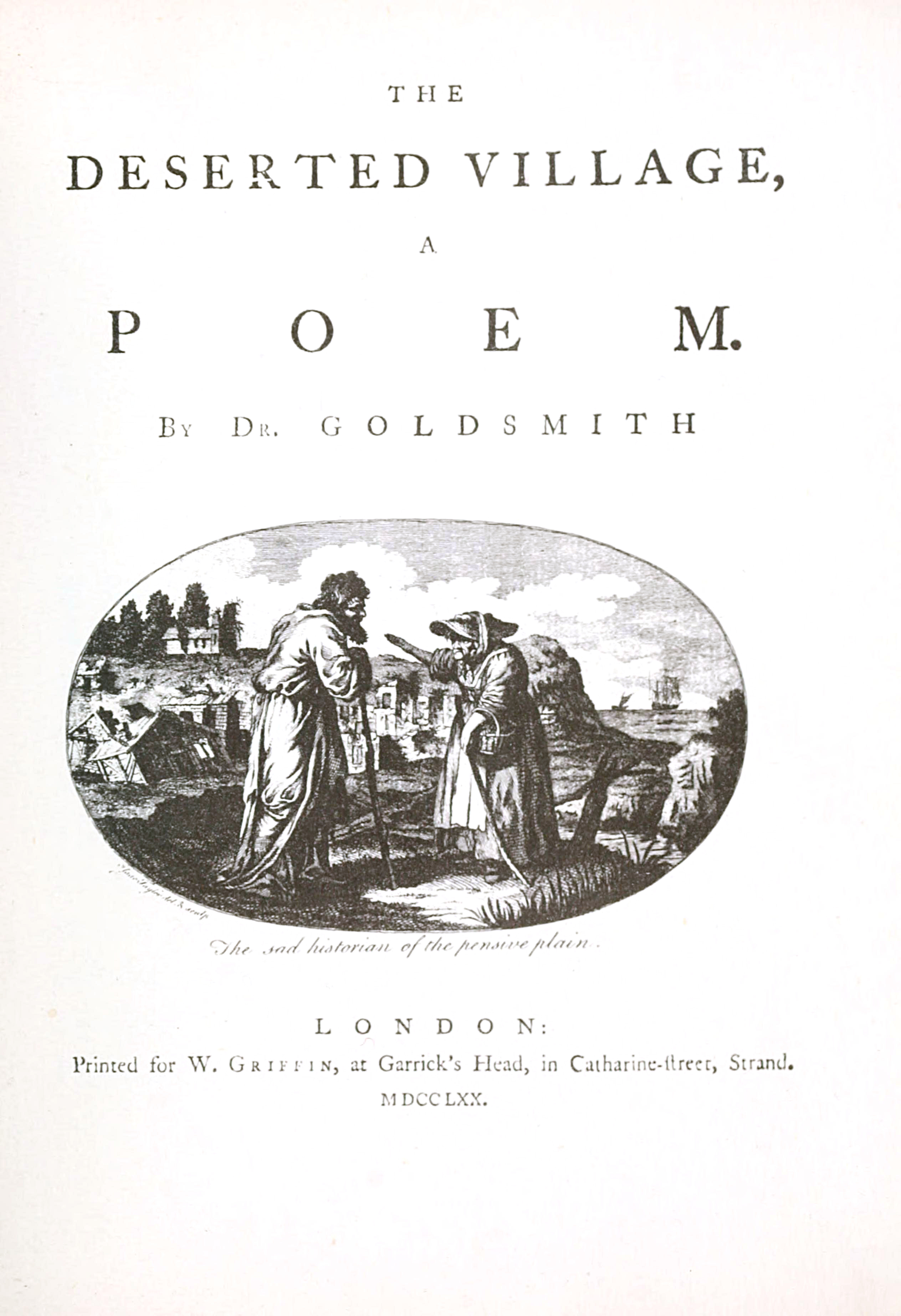 First edition titlepage of The Deserted Village by Oliver Goldsmith